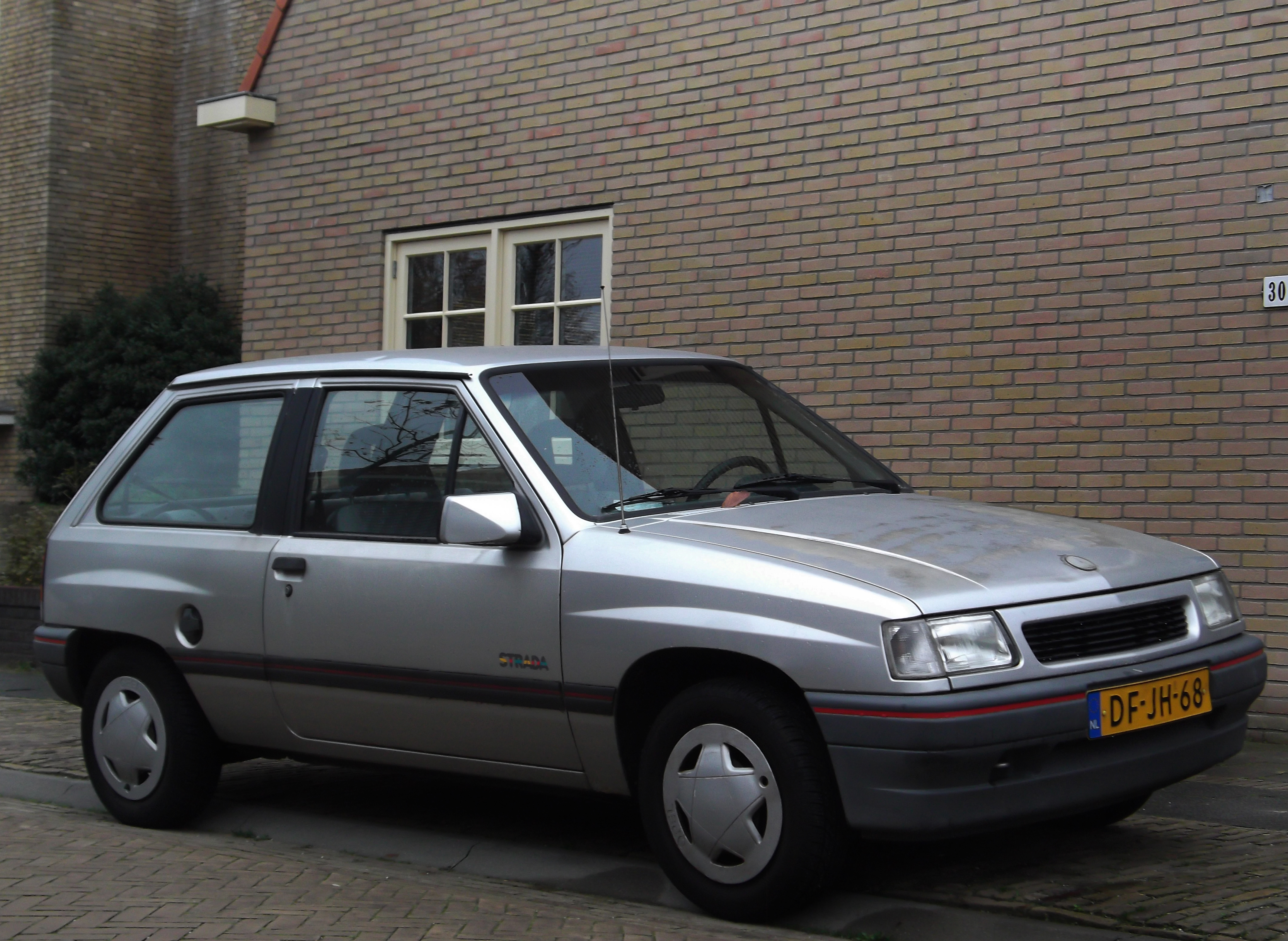 1991. First owner.